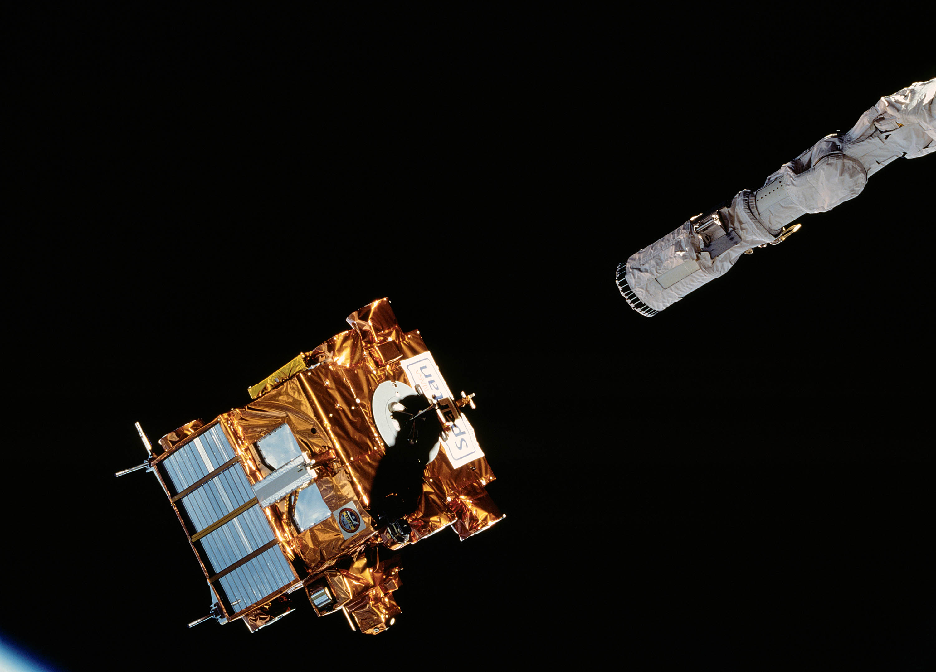 The Spartan retrievable carrier released by the robot arm of Endeavour, mission STS-72.